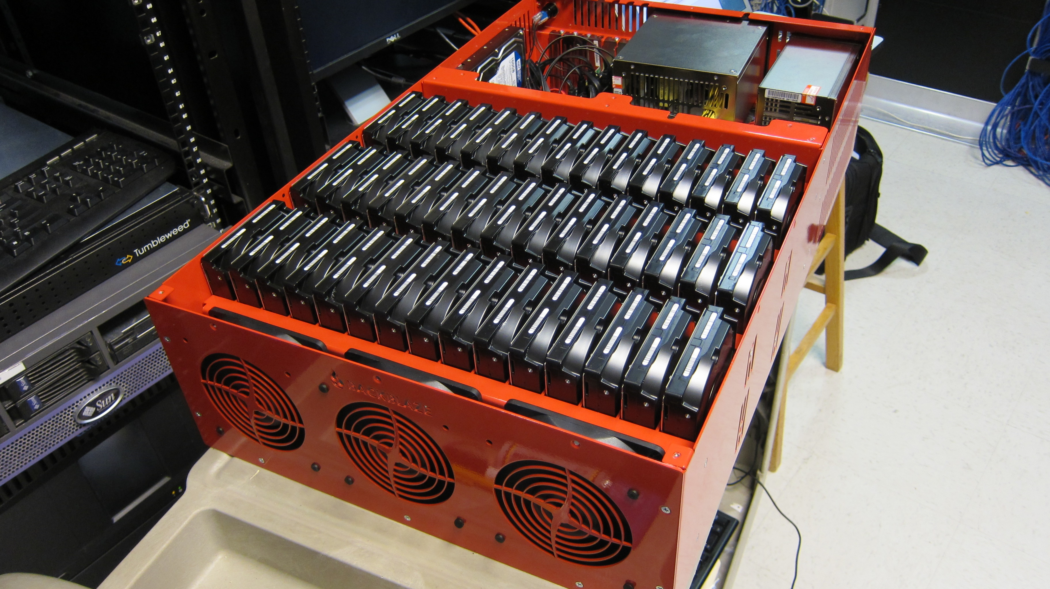 StoragePod 2.0 from Backblaze - similar to the design of Sun Fire x4500 & x4540.